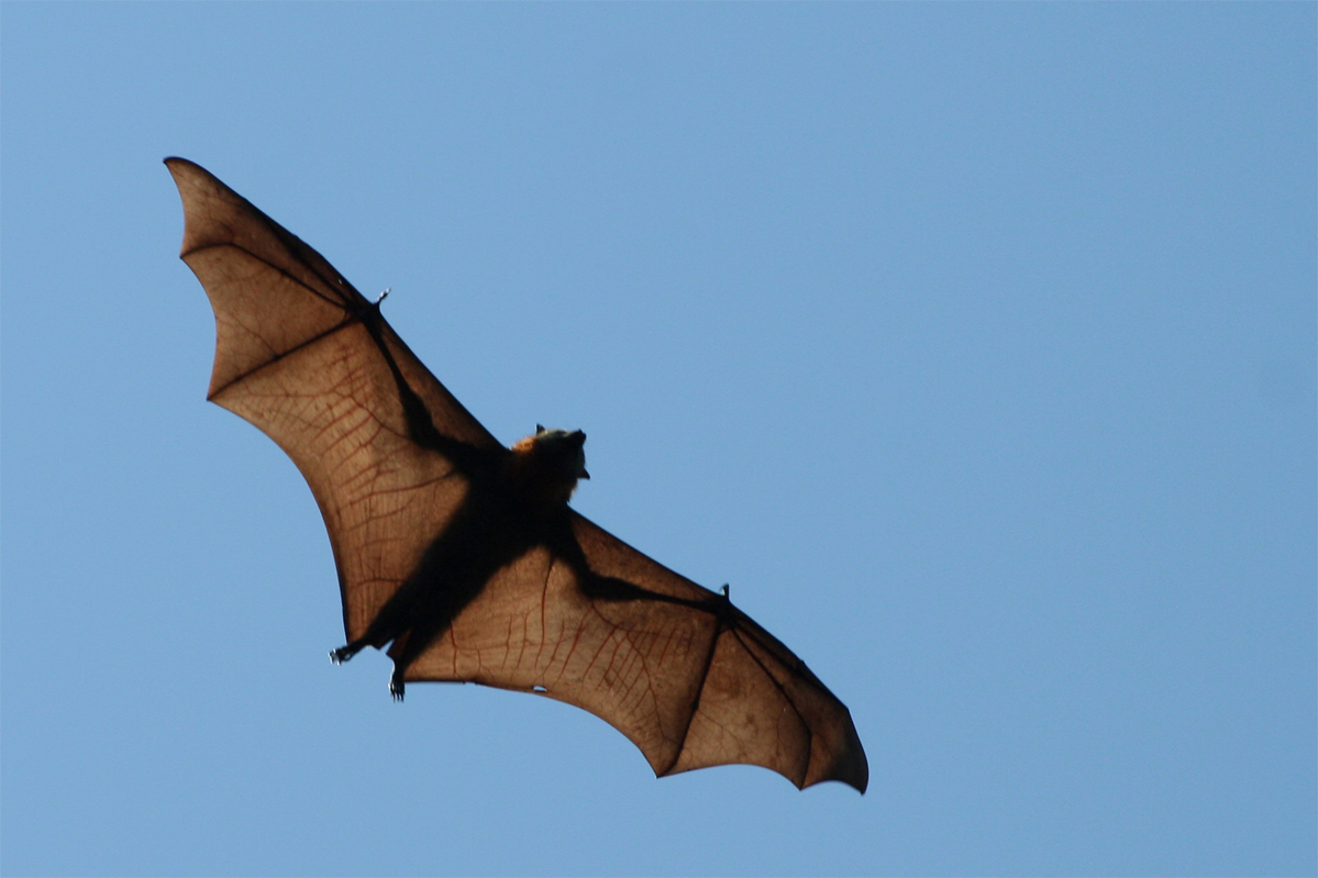 This picture was taken in Geelong, Victoria Australia. It shows the wing structure which is fascinating.